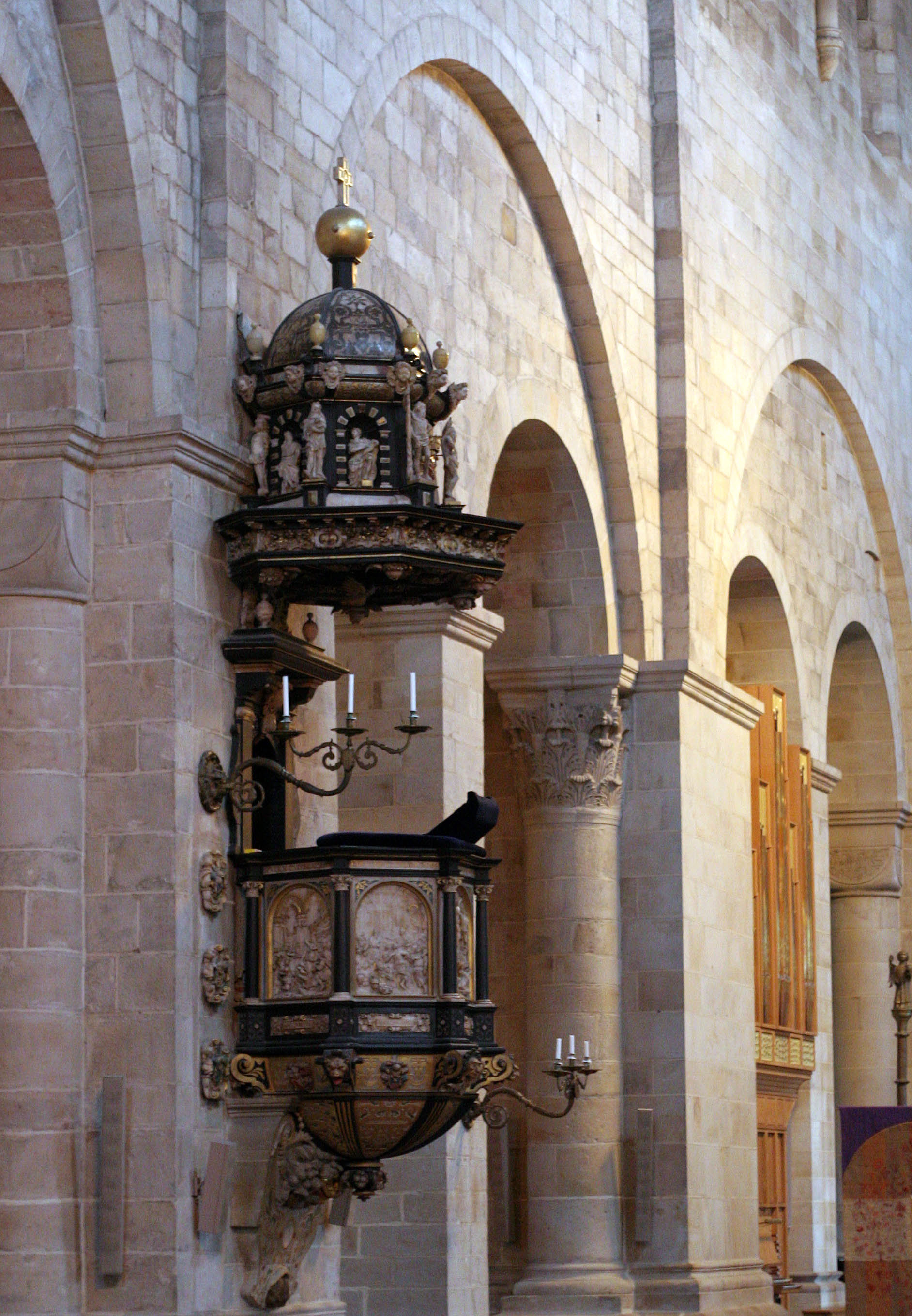 Pulpit in Lund Cathedral